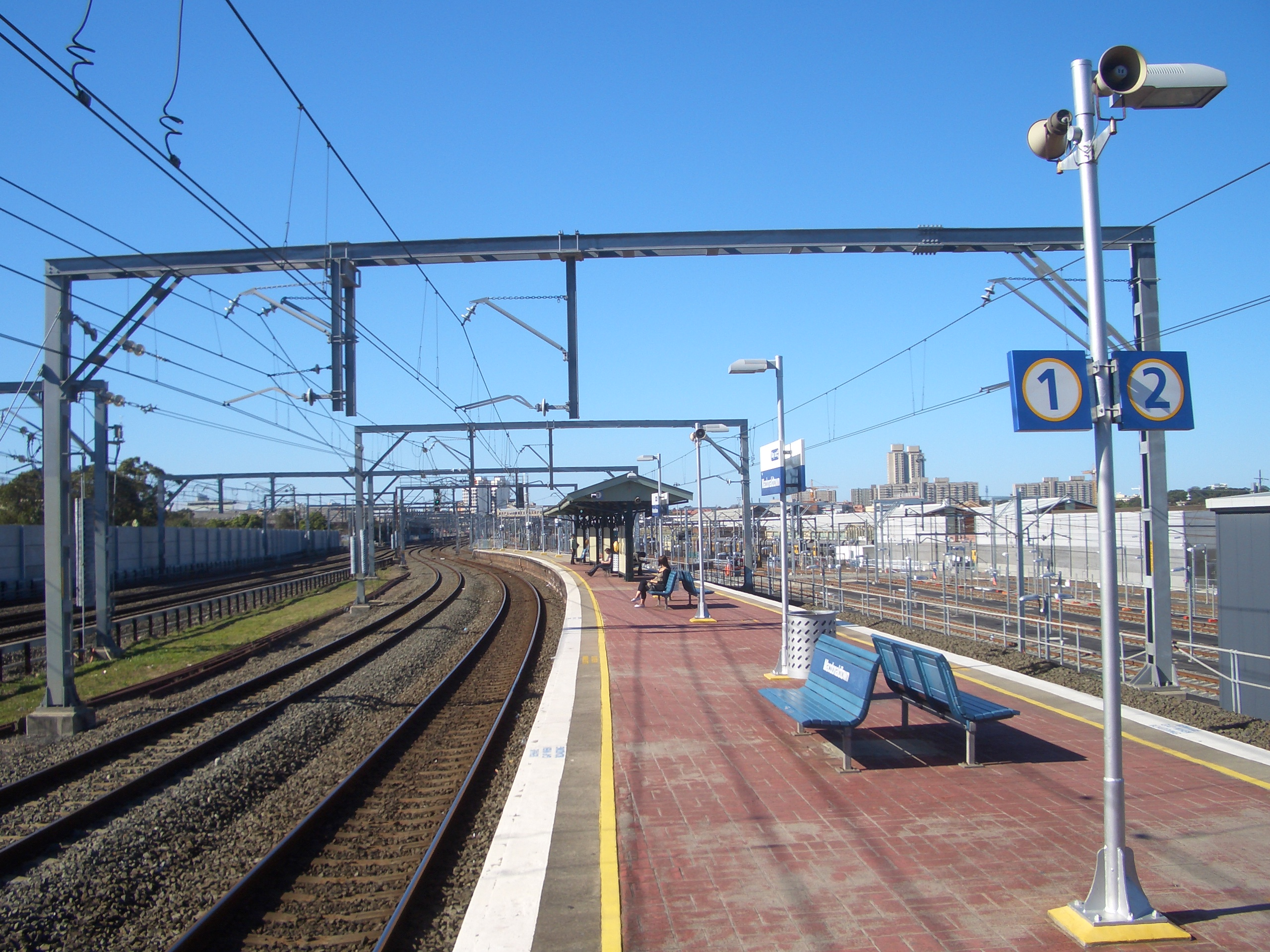 Macdonaldtown railway station platform, Sydney